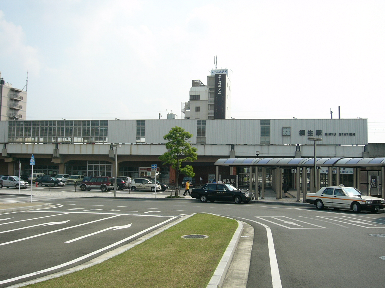 Kiryu Station (North Entrance)